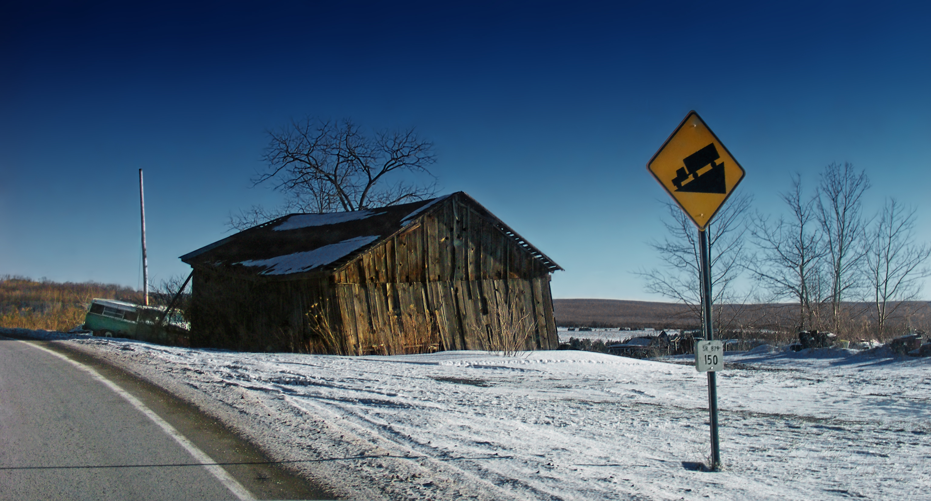 Pennsylvania Route 879, Burnside Township, Centre County.